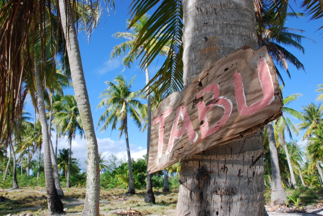 Tabu sign means "keep out!" on a private motu in Bora Bora. From our honeymoon, taken with our new Nikon digital SLR.